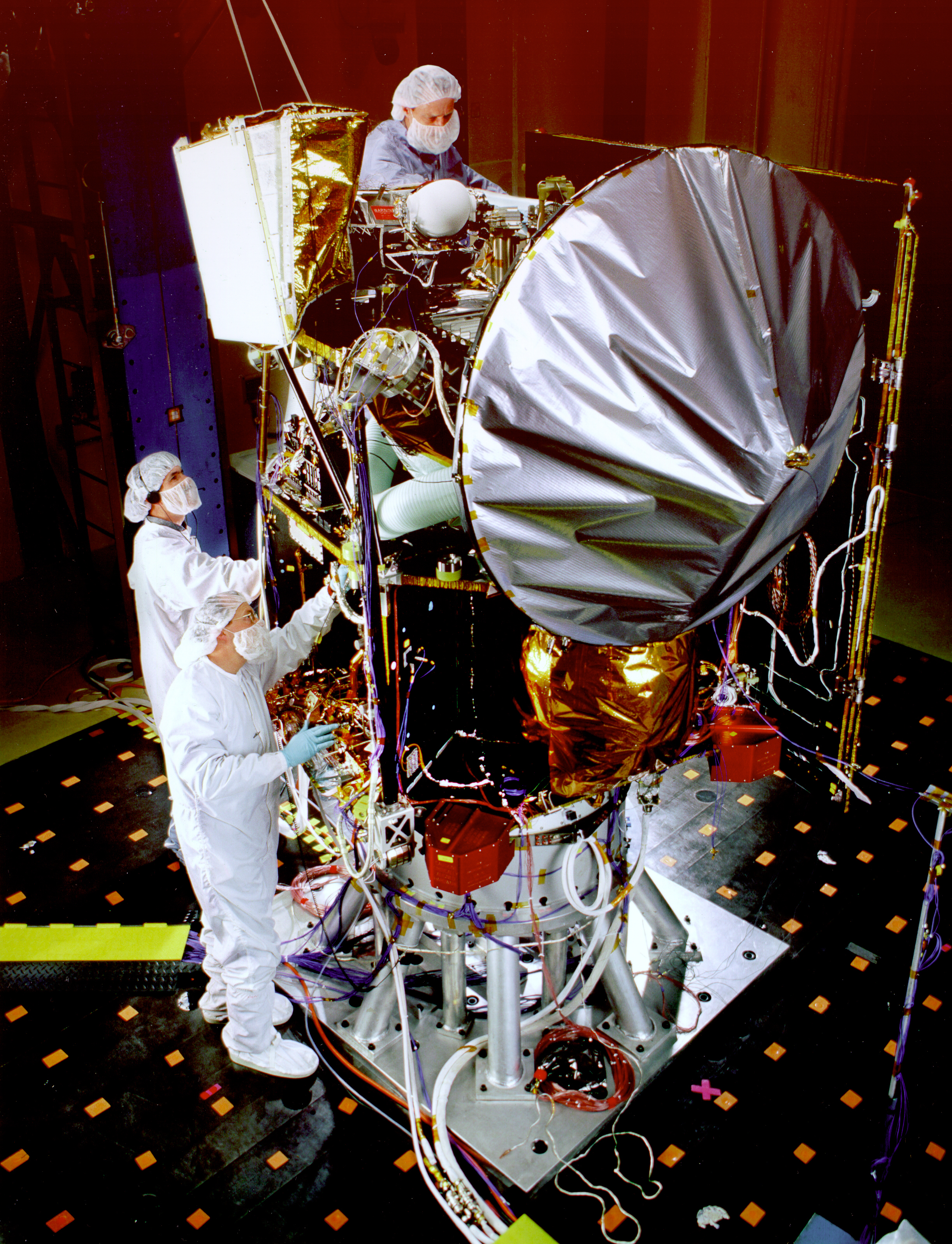 The Mars Surveyor '98 Climate Orbiter is shown here during acoustic tests that simulate launch conditions. The orbiter was to conduct a two year primary mission to profile the Martian atmosphere and map the surface. To carry out these scientific objectives, the spacecraft carried a rebuilt version of the pressure modulated infrared radiometer, lost with the Mars Observer spacecraft, and a miniaturized dual camera system the size of a pair of binoculars, provided by Malin Space Science Systems, Inc., San Diego, California. During its primary mission, the orbiter was to monitor Mars atmosphere and surface globally on a daily basis for one Martian year (two Earth years), observing the appearance and movement of atmospheric dust and water vapor, as well as characterizing seasonal changes of the planet's surface. Imaging of the surface morphology would also provide important clues about the planet's climate in its early history. The mission was part of NASA's Mars Surveyor program, a sustained program of robotic exploration of the red planet, managed by the Jet Propulsion Laboratory for NASA's Office of Space Science, Washington, DC. Lockheed Martin Astronautics was NASA's industrial partner in the mission. Unfortunately, Mars Climate Orbiter burned up in the Martian atmosphere on September 23, 1999, due to a metric conversion error that caused the spacecraft to be off course.